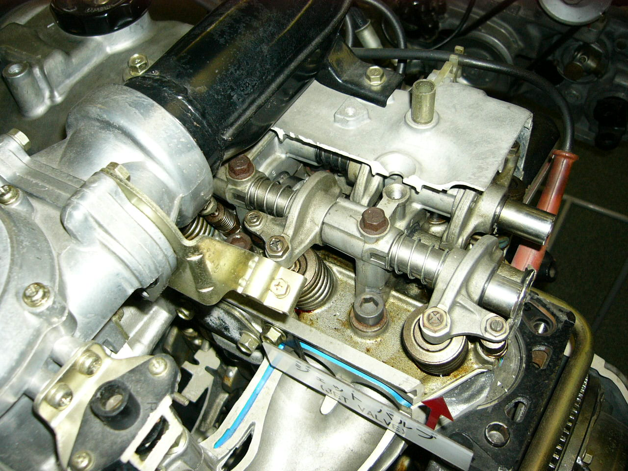 It takes a picture of the engine cutting model of Aichi Prefecture Okazai City and a Mitsubishi Auto Gallery.